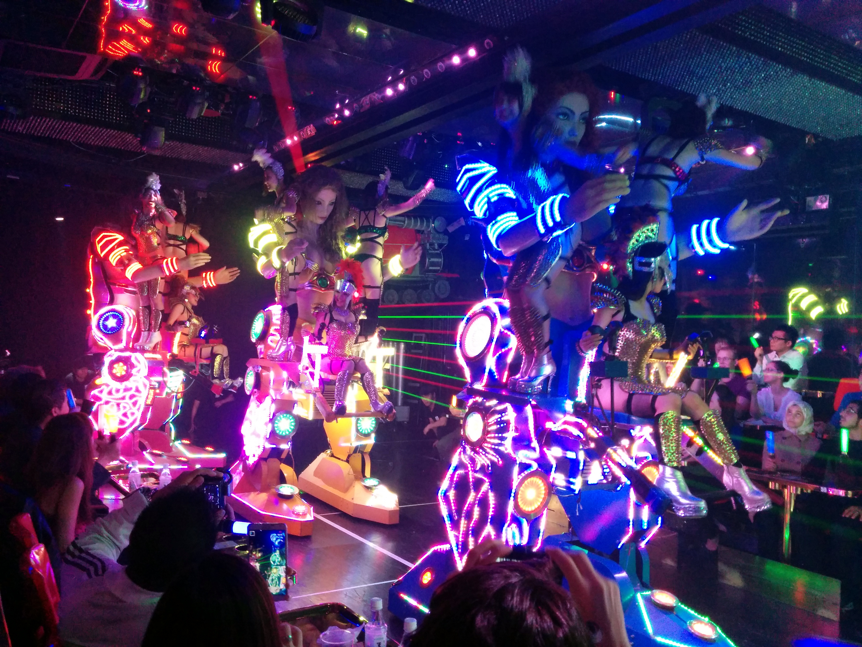 Charge of the fembots 1, Robot Restaurant, Shinjuku, Tokyo, Japan